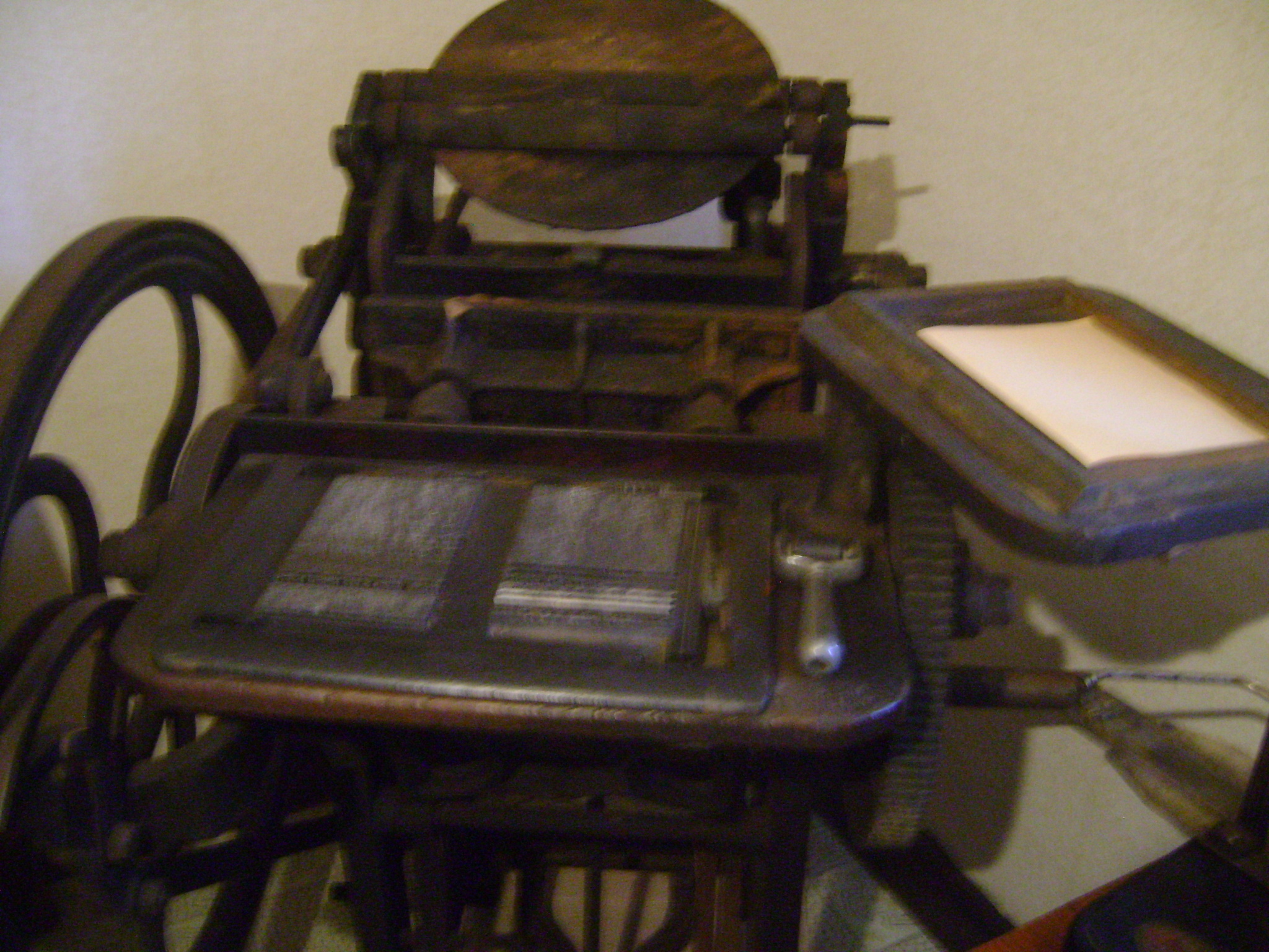 Swift Lathers' 1916 printing press